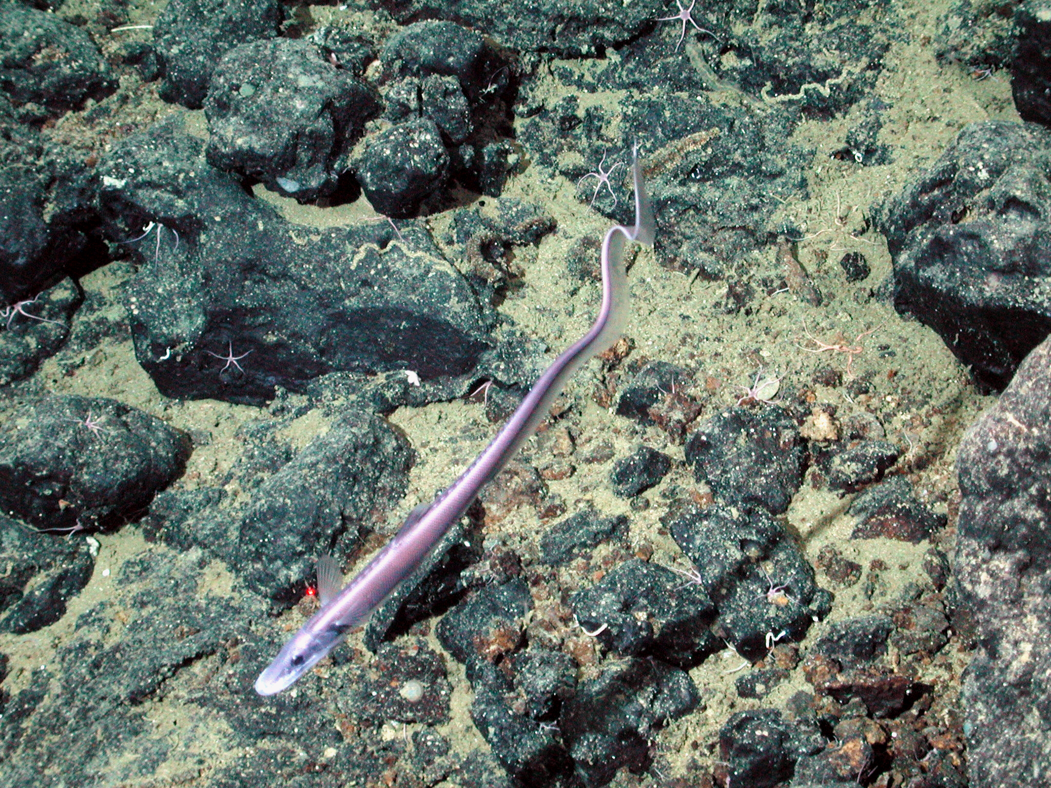 Halosaur (Aldrovandia sp.) at 1736 meters water depth, Davidson Seamount, California. (Image ID: expl0794, Voyage To Inner Space - Exploring the Seas With NOAA Collect)